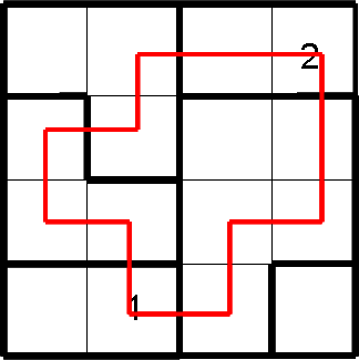 Solved Country Road puzzle